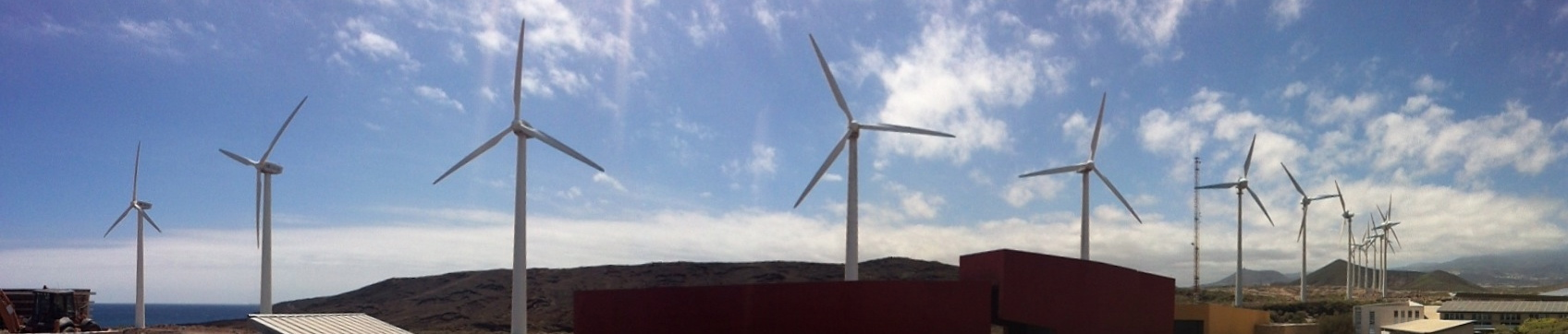 Panoramic view of the 5.5 MW wind farm installed at ITER, Tenerife, in 1998. There are 11 Enercon E-40 turbines.